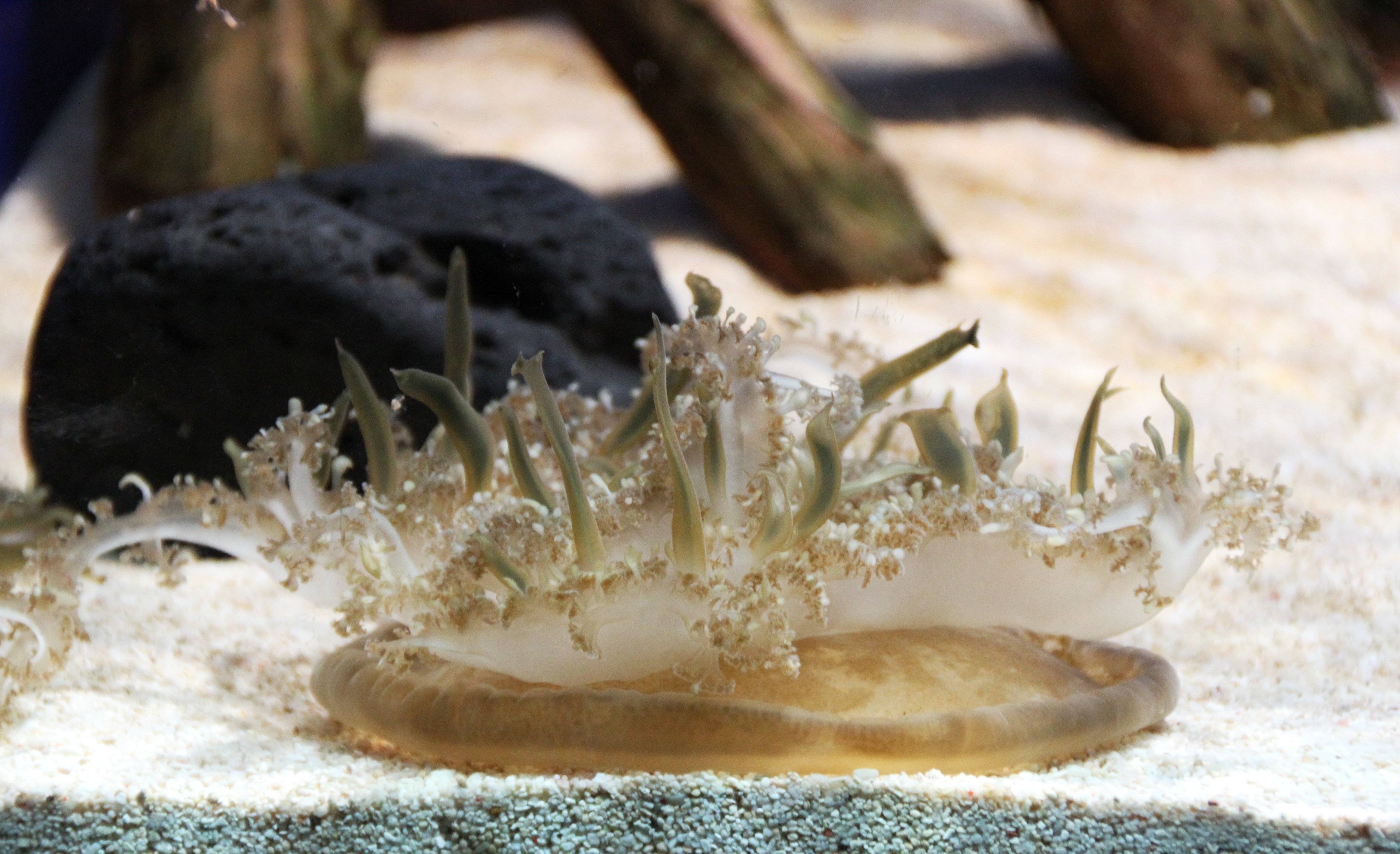 Upside-down jellyfish (Cassiopeia xamachana) in the Loro Parque zoo, Tenerife (Spain)